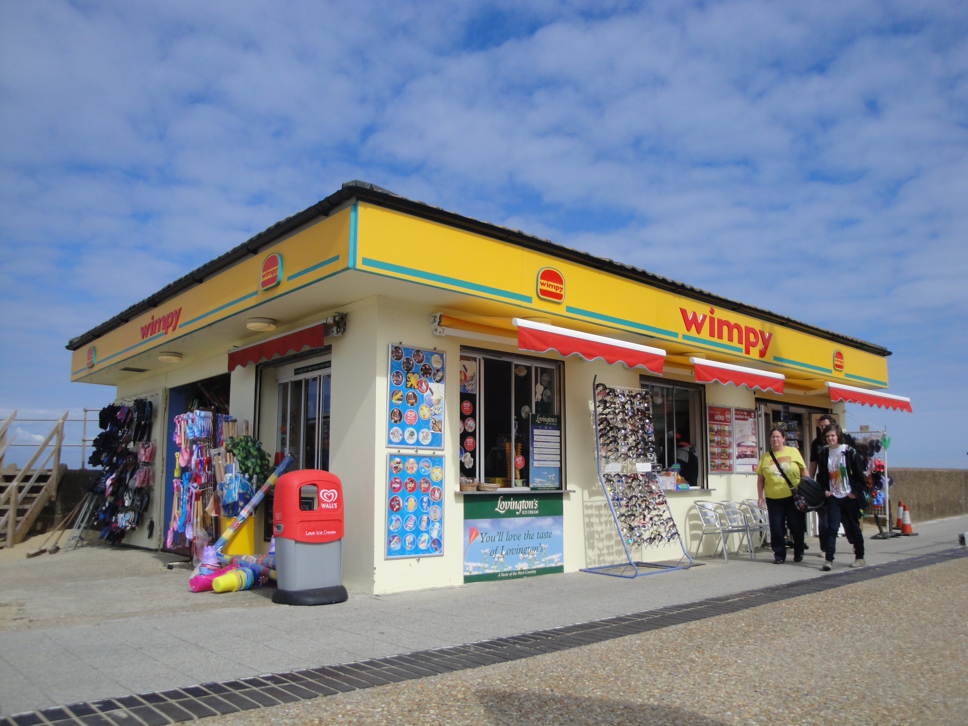 The Wimpy Restaurant on the seafront at North Walk, Ryde, Isle of Wight. Despite the closure of many Wimpy restaurants across the UK, the town of Ryde is unusual in retaining two, with the other located in Union Street in the town centre.